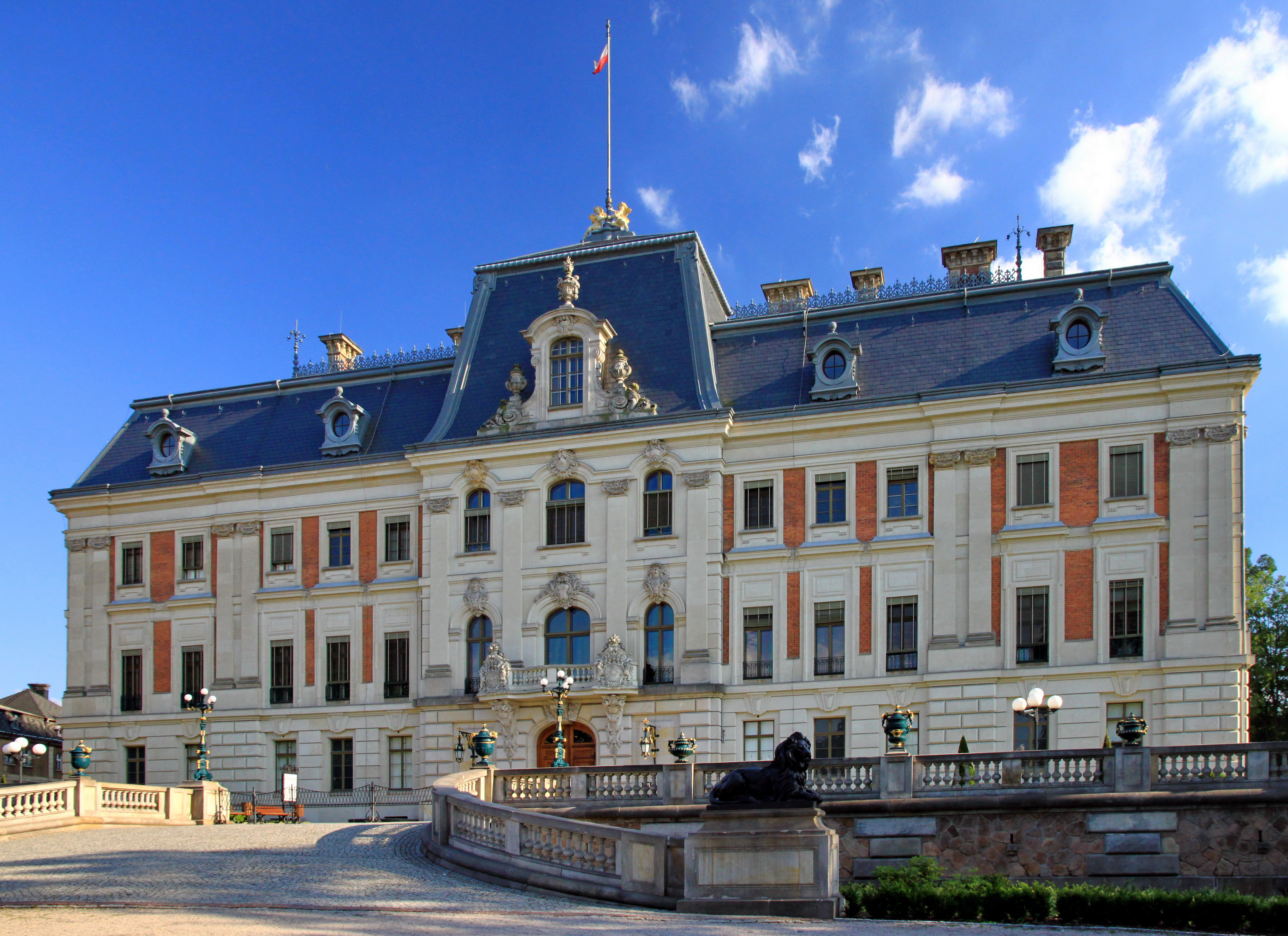 Pszczyna, palace, now Castle Museum, build in 17th century, 20th century